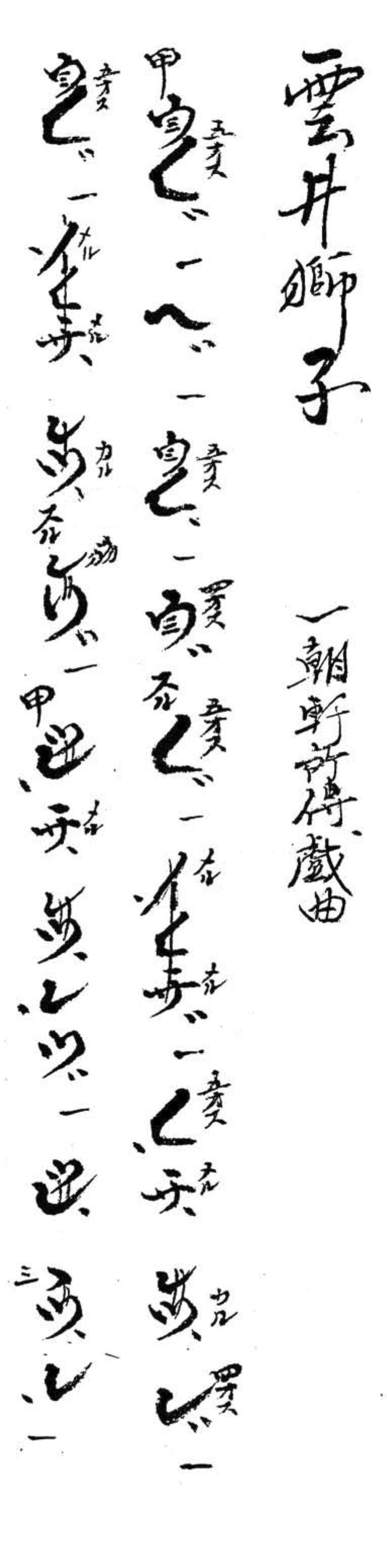 first two lines of Kumoijishi 雲井獅子. Kurahashi Yodo's 倉橋容堂 (1909 - 1980) handwritten notation.